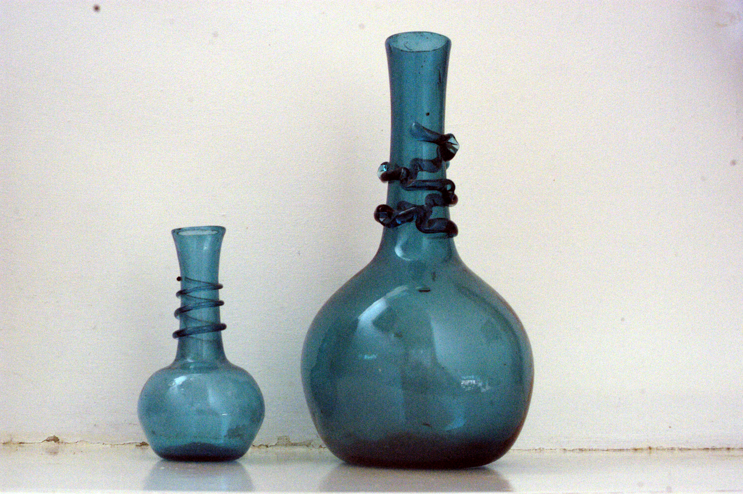 Hebron glass. Largest 12 inches tall. 1960.